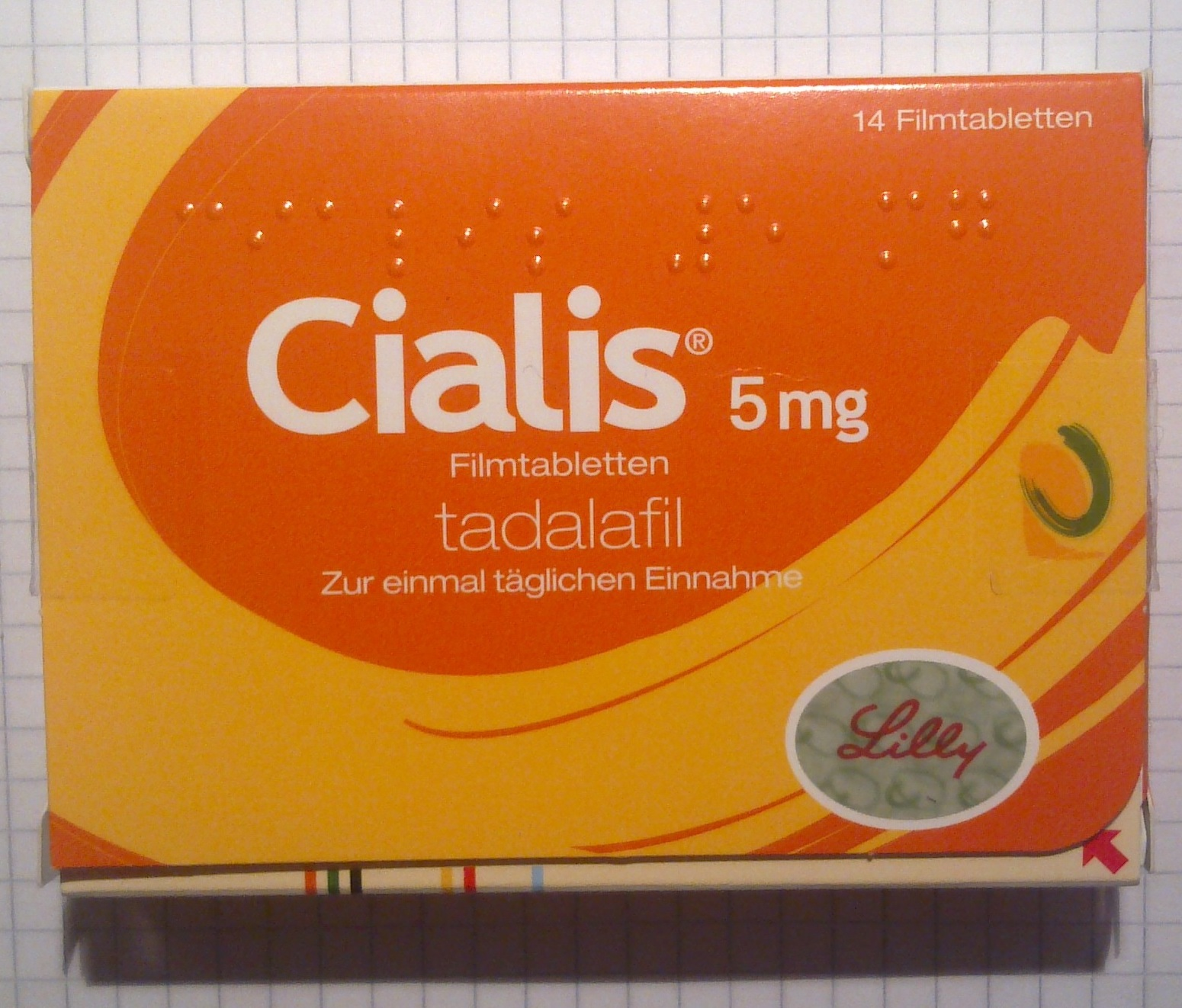 German packet of Cialis (tadalafil). 14 tablets of 5 mg.